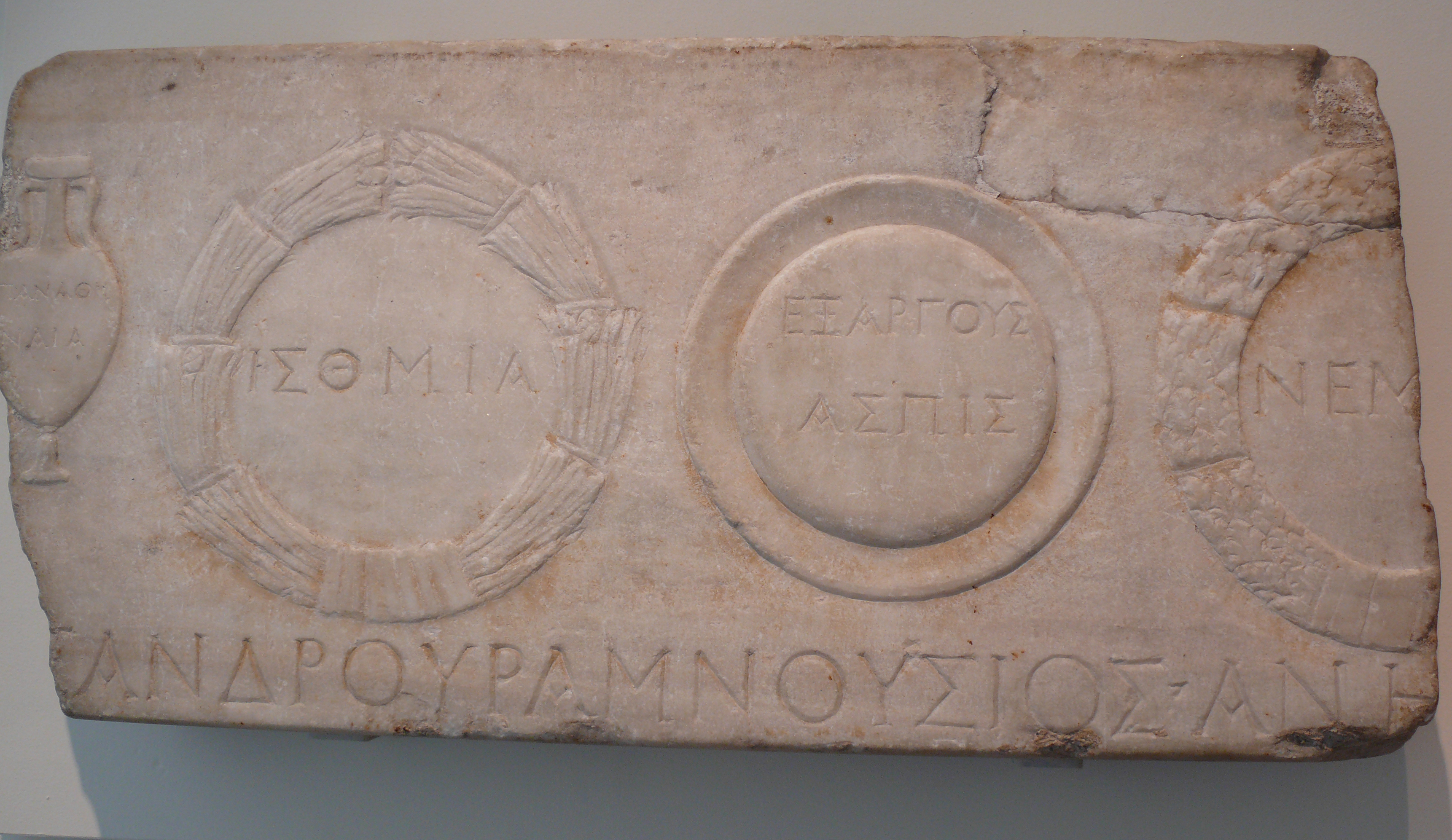 Relief fragment depicting athletic prizes in the Metropolitan Museum of Art, New York, NY. Marble Roman, Mid-Imperial, Antonine, 2nd Century AD Rogers Fund Acquisition number 59.11.19